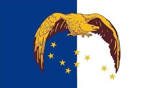 Flag of the Azores Liberation Front